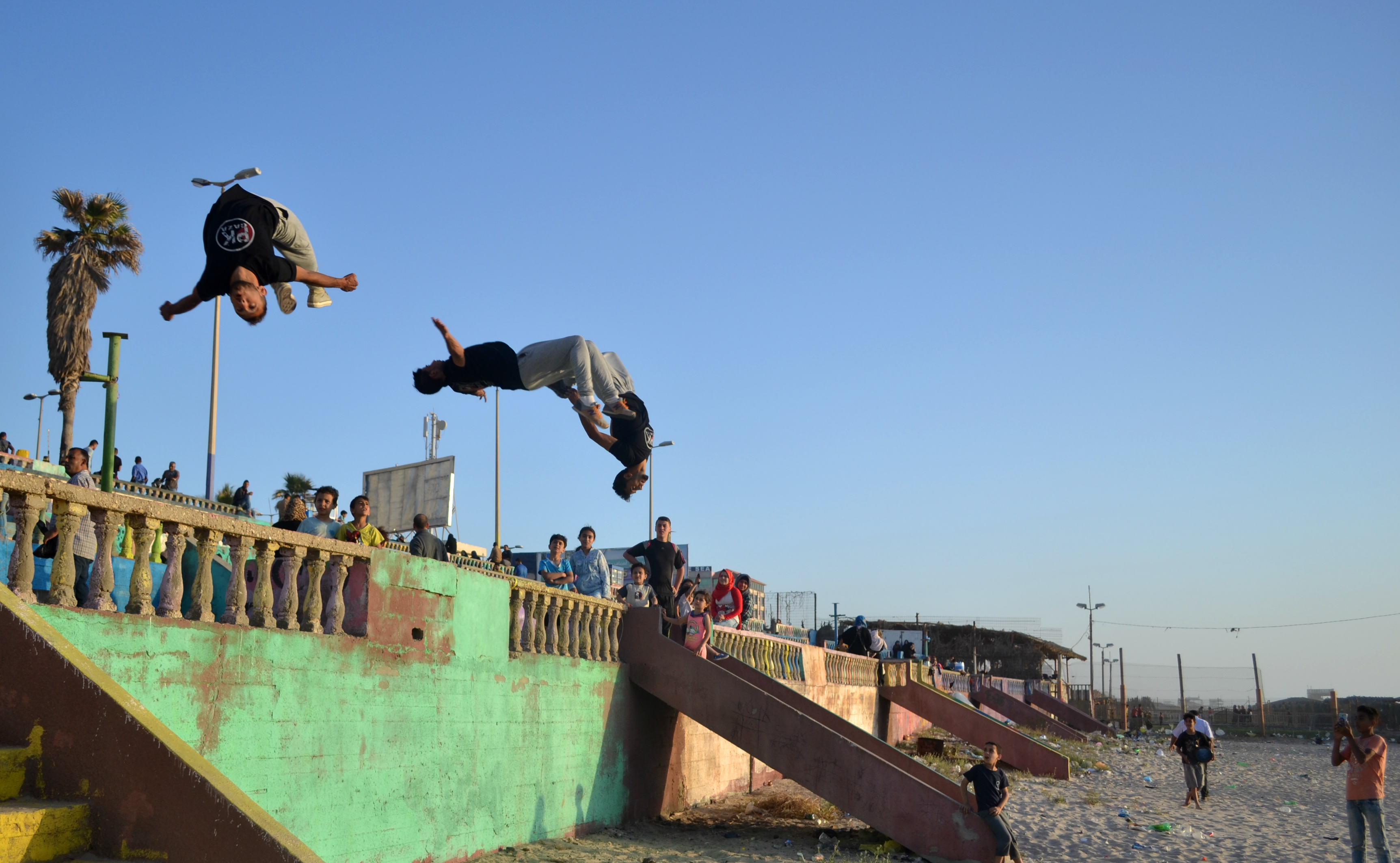 Members of the Gaza Parkour Team jump off the wall at the beach. Parkour has become an outlet for these young people. With people essentially trapped inside Gaza, mental health is an increasing problem. (Photo: Eoghan Rice / Trócaire)